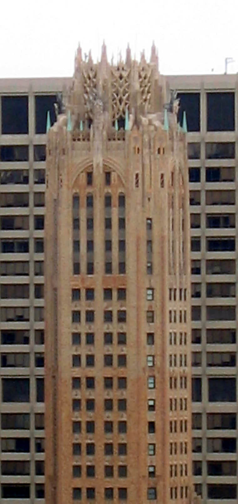 This is from my personal collection.